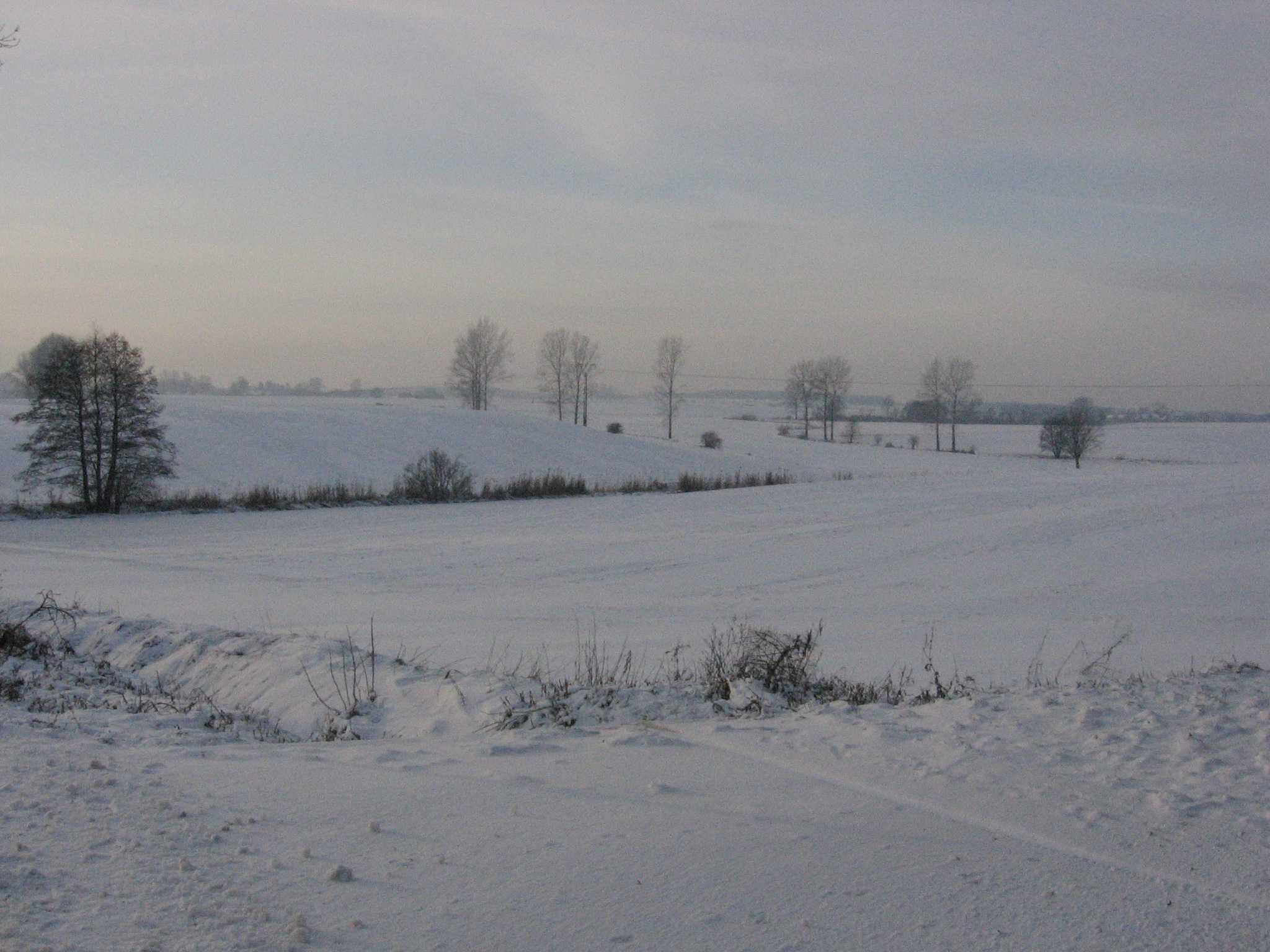 Landscape from Padniewko - cultivation area.